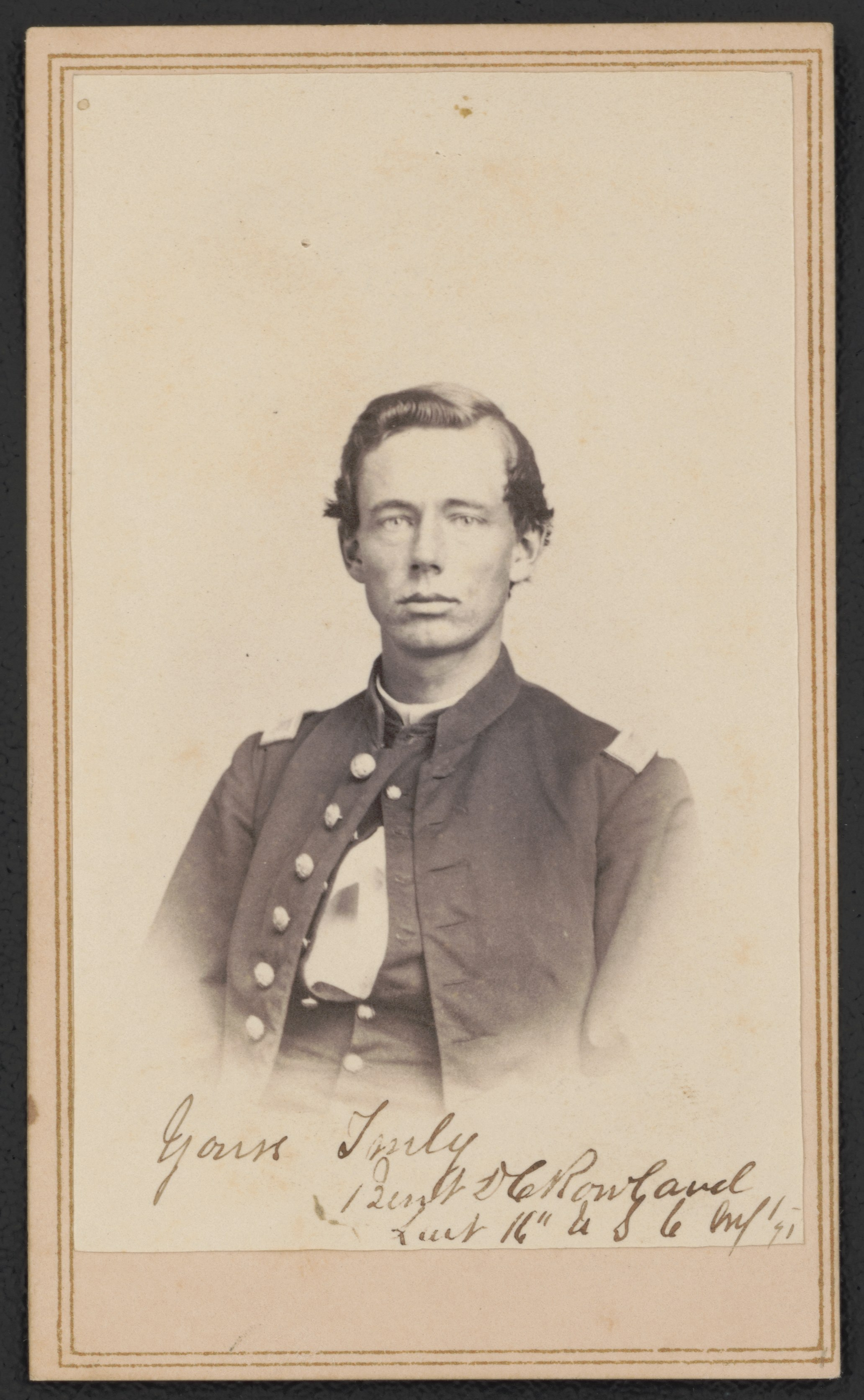 Title: Lieutenant Bent D.C. Rowland of Co. G, 16th U.S. Colored Troops Infantry Regiment and Co. A, 36th Illinois Infantry Regiment Abstract/medium: 1 photograph : albumen print on card mount ; mount 11 x 6 cm (carte de visite format)